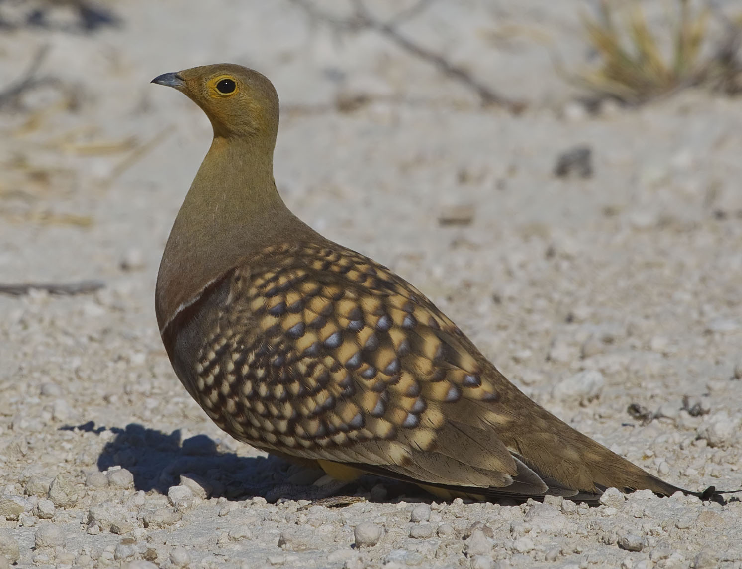 Namaqua sandgrouse male, Etosha National Park